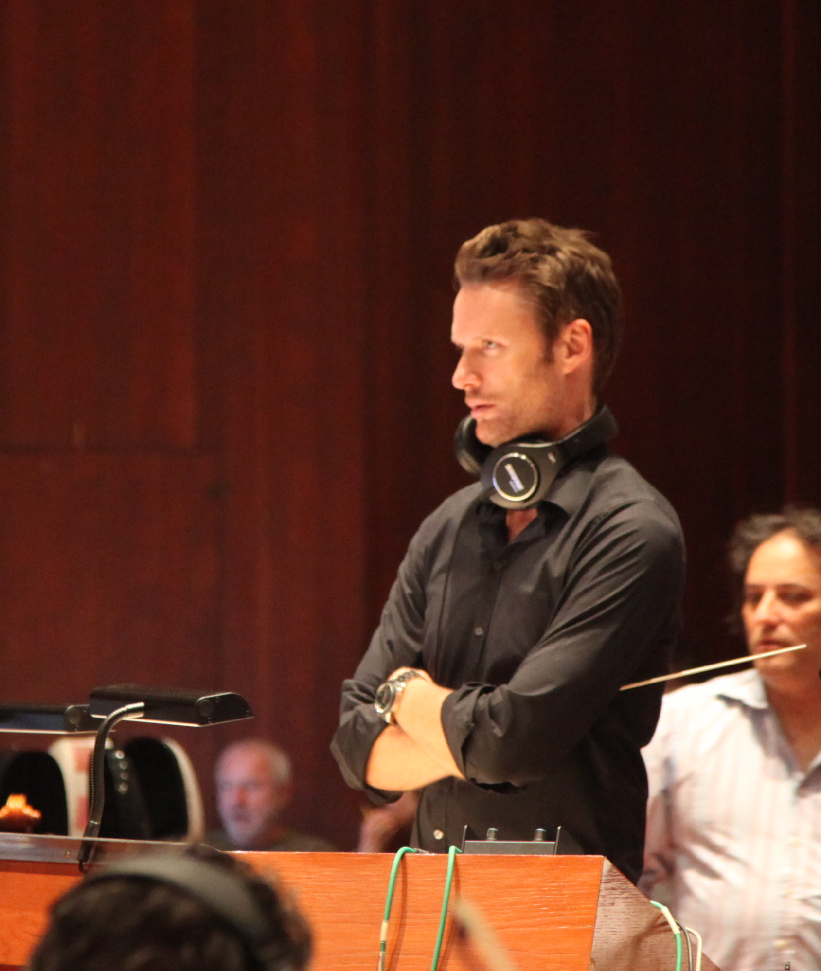 Brian Tyler on the podium conducting music